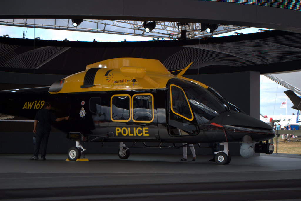 AW169 public presentation at Farnborough Air Show 2010AgustaWestland AW169